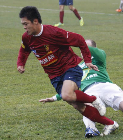 Takafumi Akahoshi playing for Pogoń Szczecin.